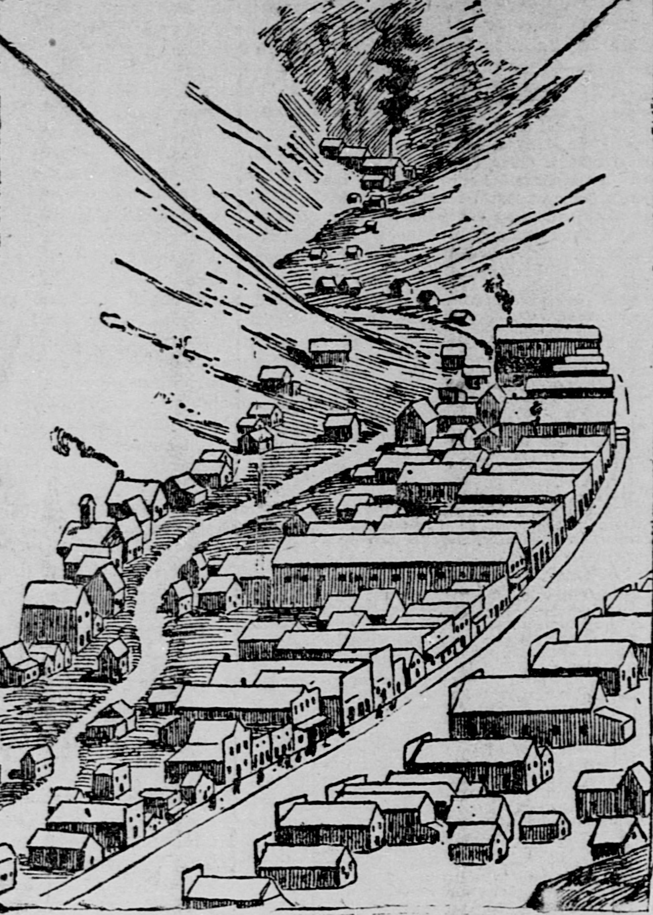 Newspaper illustration showing the town of Wardner, in the heart of Coeur d'Alenes. The place is hemmed in on each side by high mountains. The Bunker Hill and Sullivan mines are in the side hill at the upper hand of the picture, and the Bunker Hill mill, which was blown up is the one from which smoke is rising.